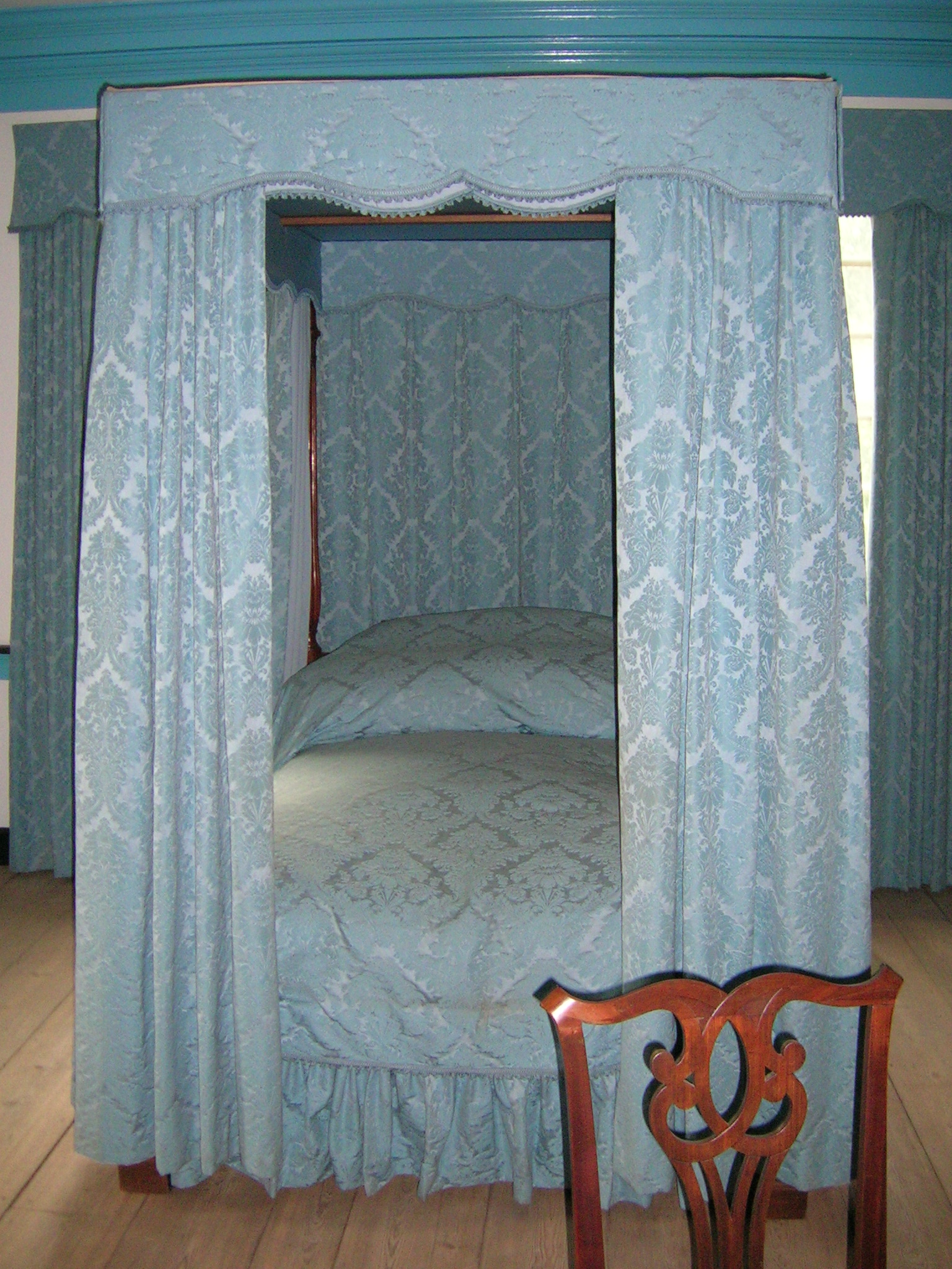 Bedroom in Hope Lodge